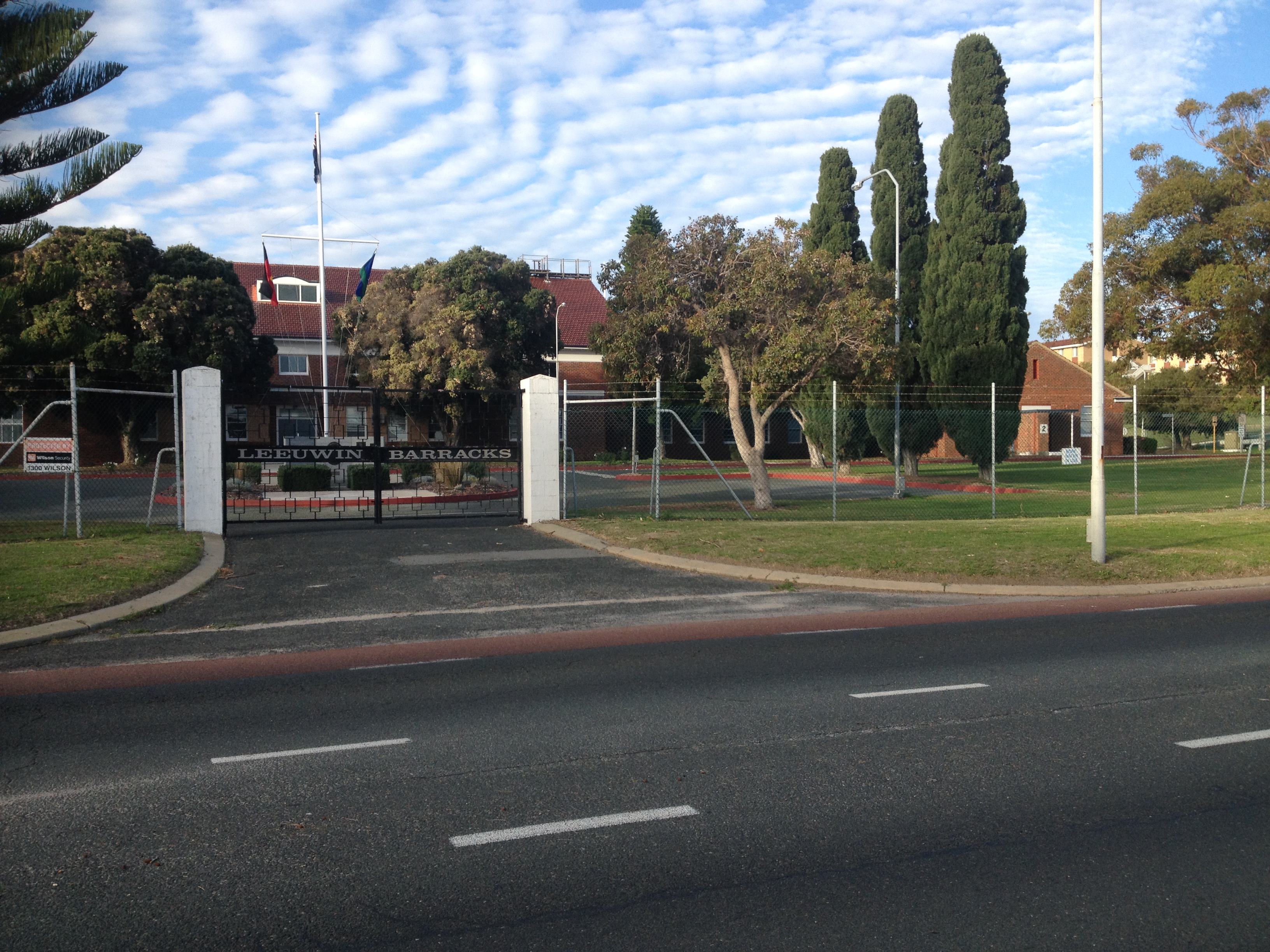 The facade of Leeuwin Barracks taken from Riverside Road in July 2016.